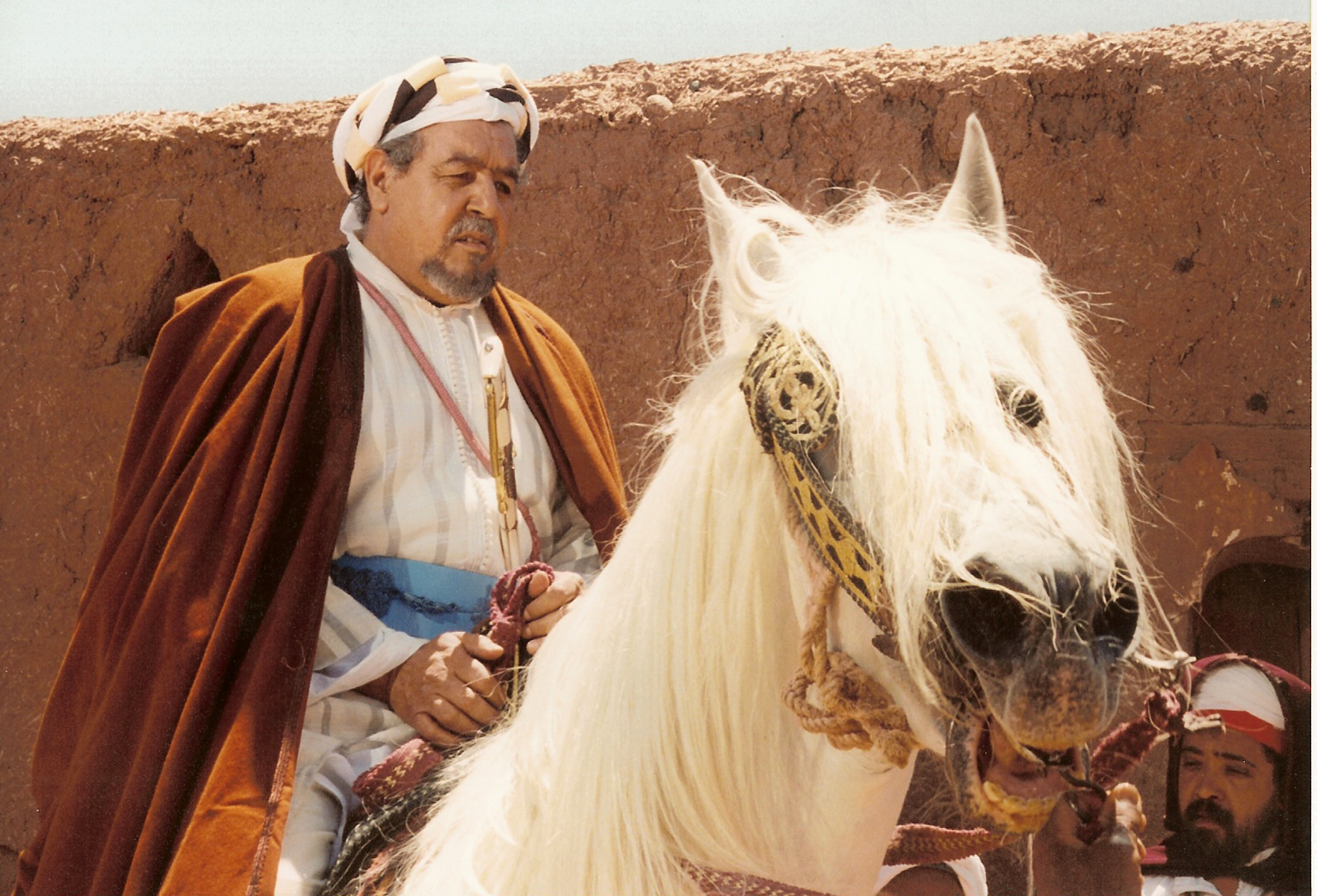 Hassan Al Jundi - Morrocan Actor in the Drama series - The Last Cavalier